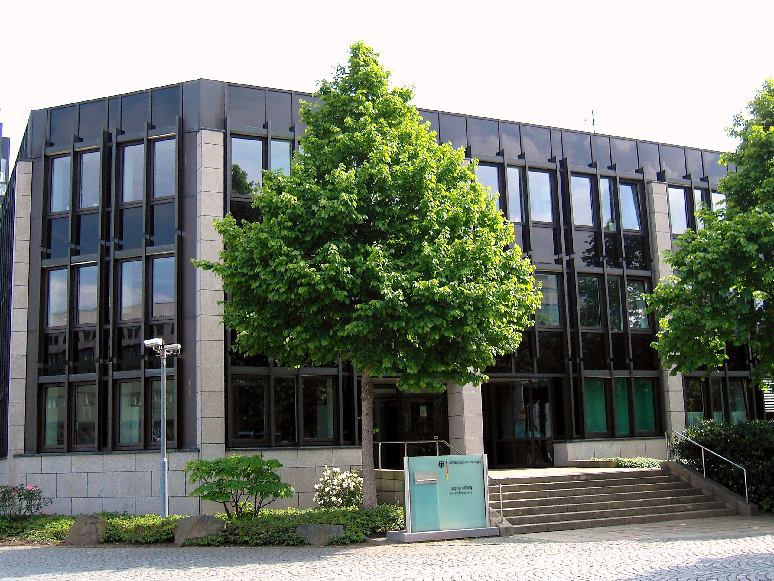 Main office of the German Bundeseisenbahnvermögen (“Federal railway system property”) in Bonn.